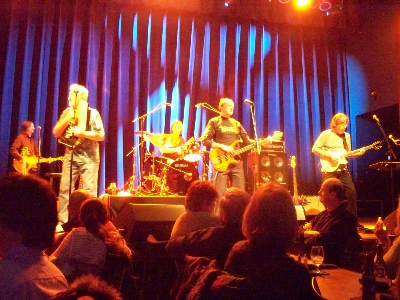 The Lovin' Spoonful-Showcase Live, Foxboro, Mass. Jan. 13, 2011 The current band lineup is Steve Boone on bass, Joe Butler [both Butler and Boone are originally from Long Island] on lead vocals and auto harp, percussion and guitar, Jerry Yester [originally from Burbank, Calif.] on guitar and lead vocals, Mike Arturi, drums, and Phil Smith; the latest member of the group on guitar and vocals. John Sebastian, who wrote many of their hits and founded the group, is no longer with the band.